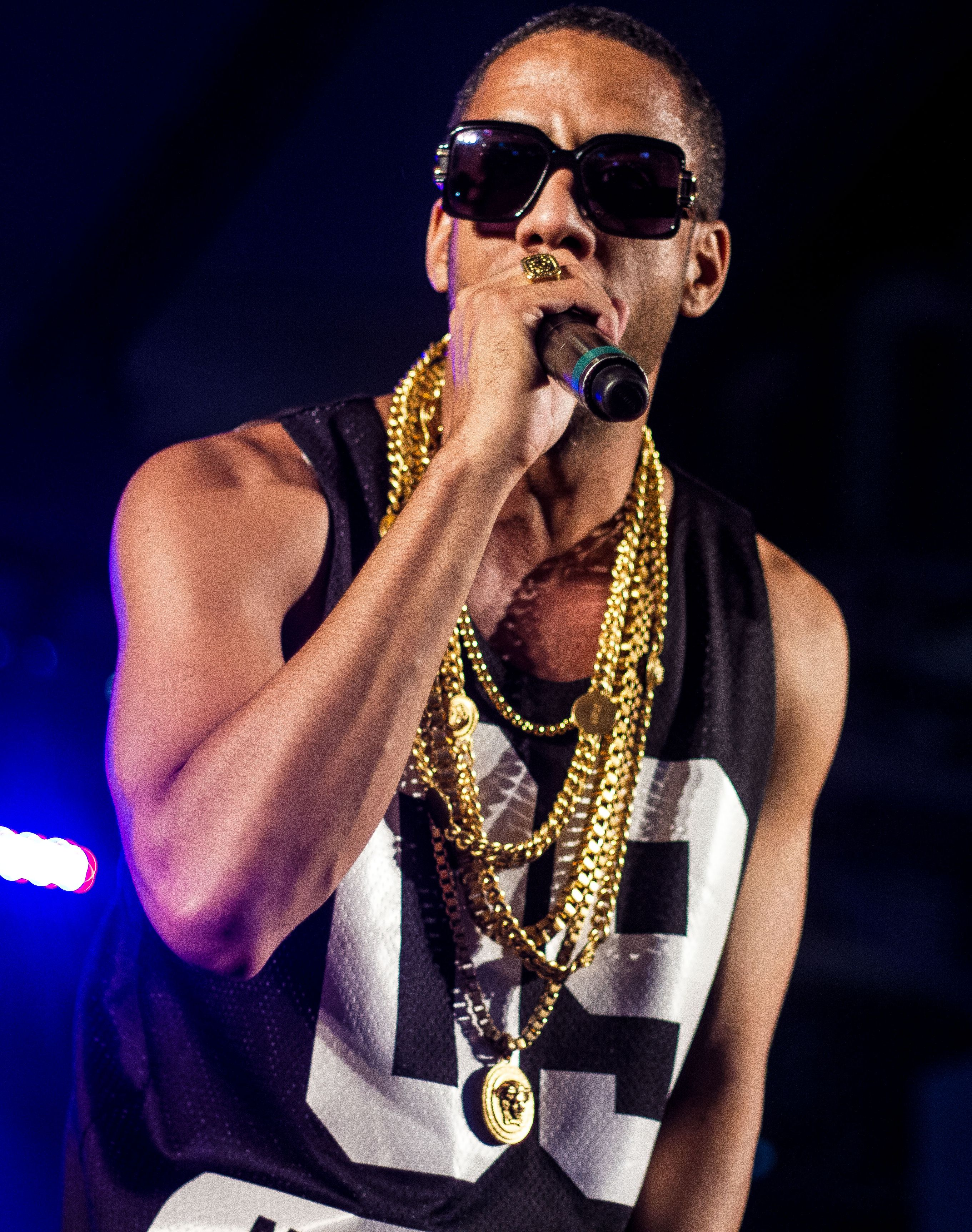 Photo of Ryan Leslie performing at the Manifesto in September 2014 in Toronto.